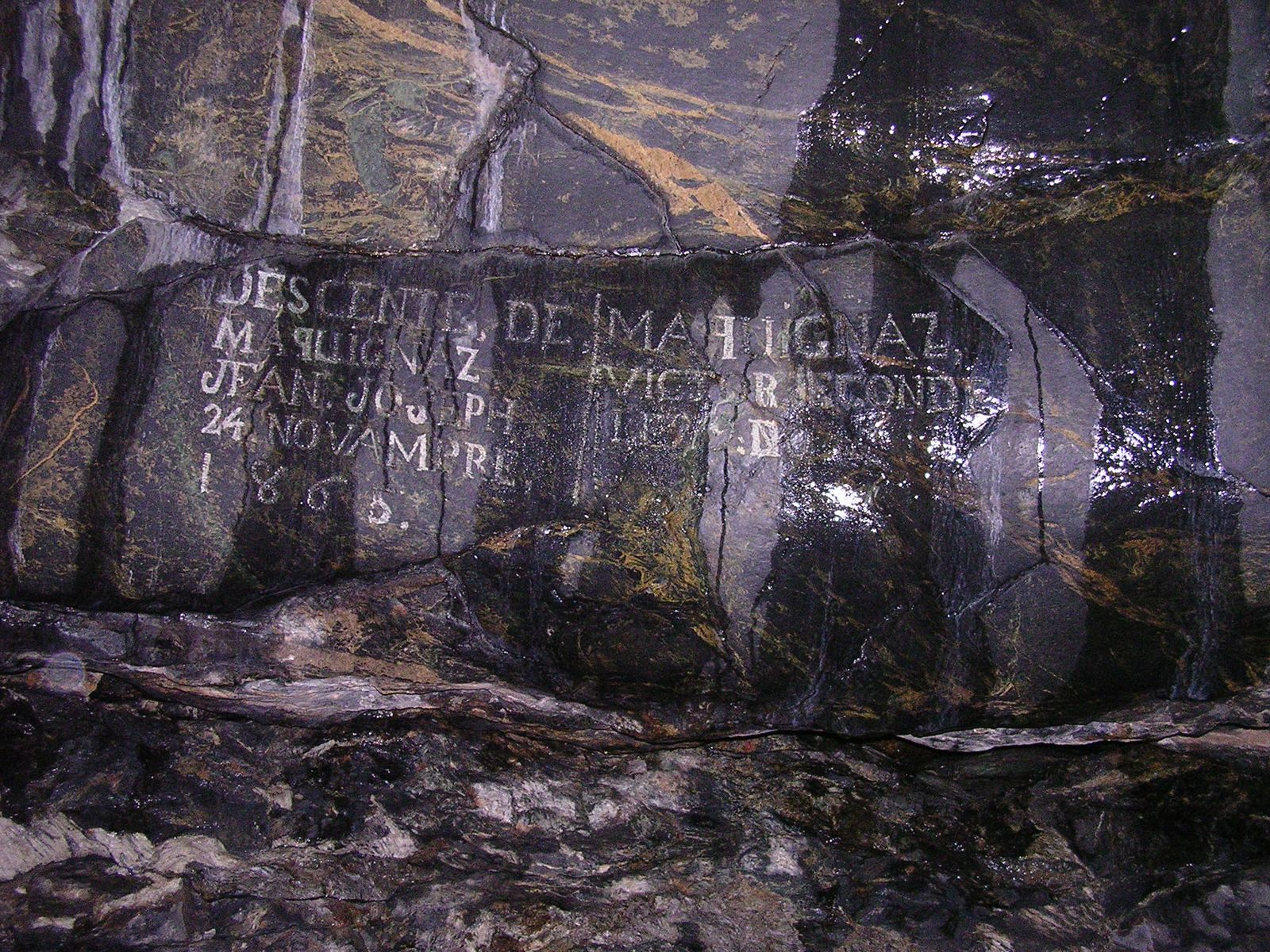 Incisions in the "gouffre des Busserailles" (Valtournenche valley - Italy)